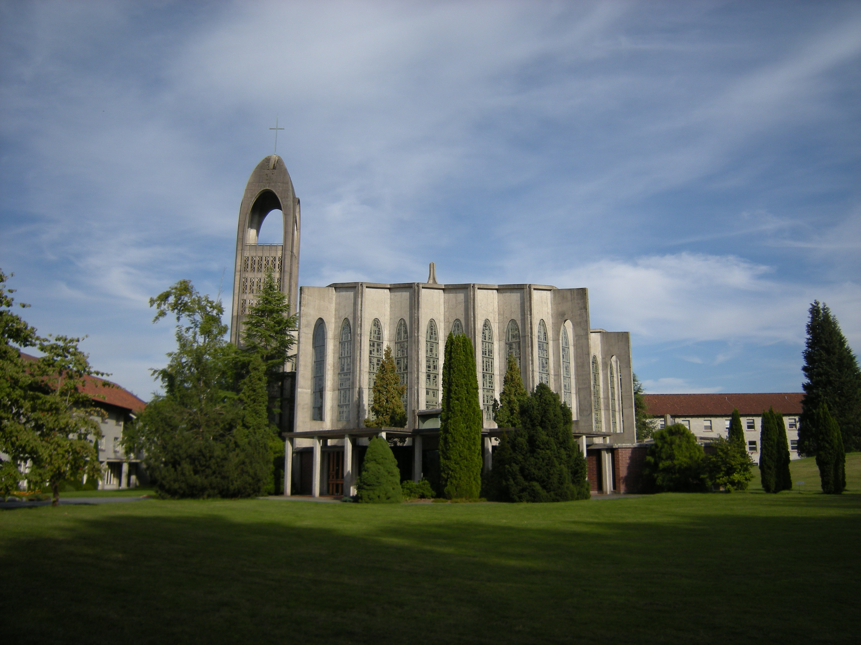 Westminster Abbey, Mission, British Columbia.